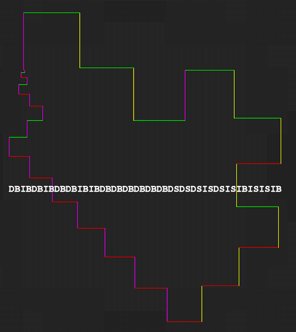 The golygon includes in the image the sequence used for its drawing. Legend: D= Right, B= Down, I= Left, S= Up